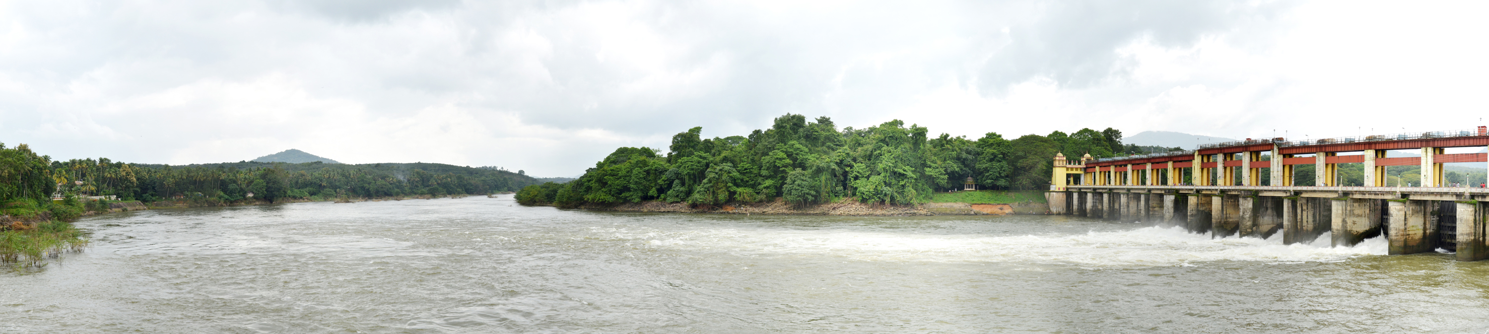 Bhoothathankettu Dam